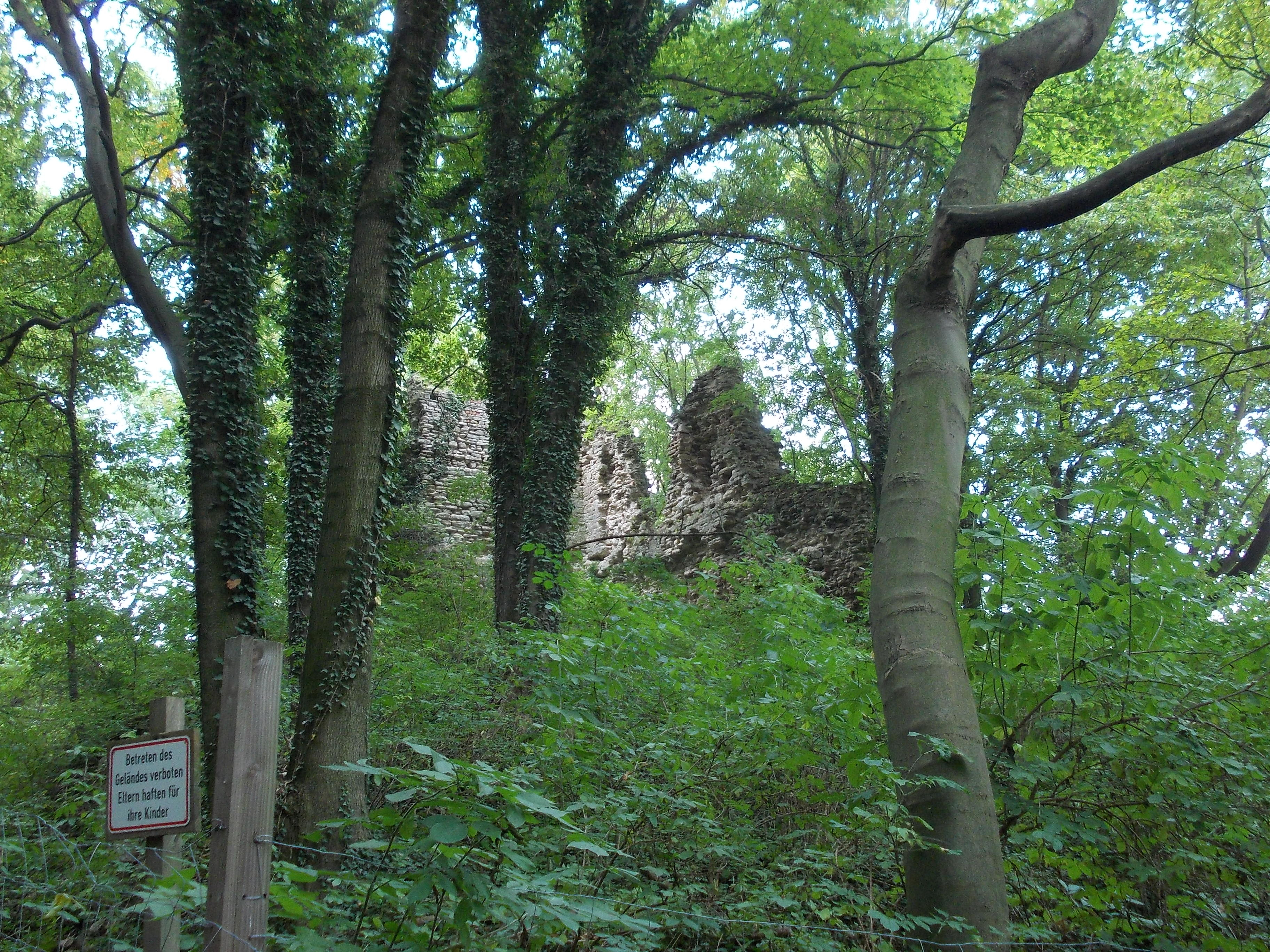 Ruins of Kempe castle near Breitenbach (Wetterzeube, district: Burgenlandkreis, Saxony-Anhalt)